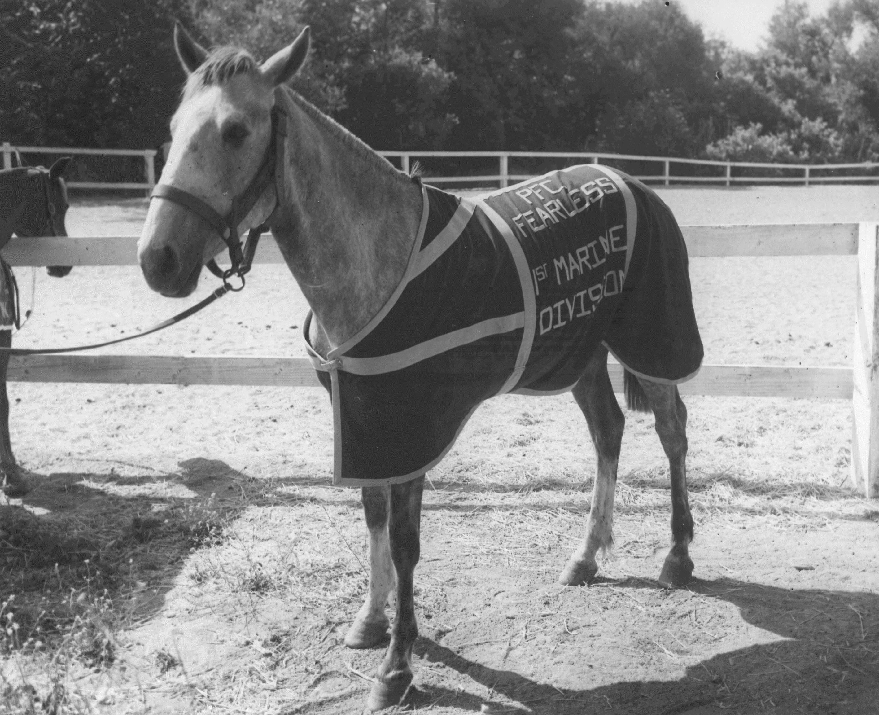 From the Thomas F. Riley Collection (COLL/3876), Marine Corps Archives & Special Collections. OFFICIAL USMC PHOTOGRAPH